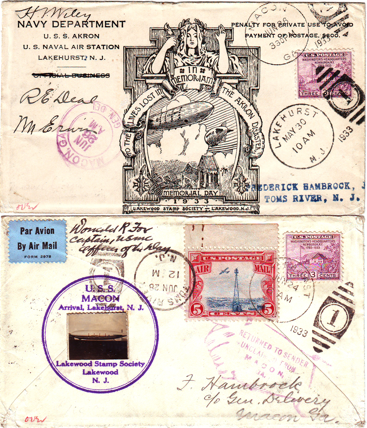 U.S. Navy ZRS-4 USS Akron Memorial cover autographed by crewmen LCDR Herbert V. Wiley (Executive Officer), AM2 Moody Erwin, and BM2 Richard E. Deal, the only three survivors of the ill fated airship that crashed in the Atlantic Ocean in a weather related accident off the New Jersey coast early on April 4, 1933, with the loss of 73 of the 76 souls on board.